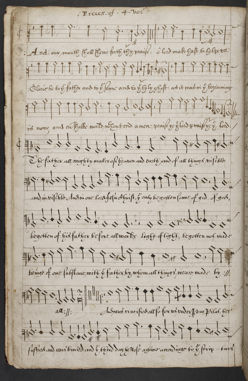 Preces for 4 voices. In the composer's hand.